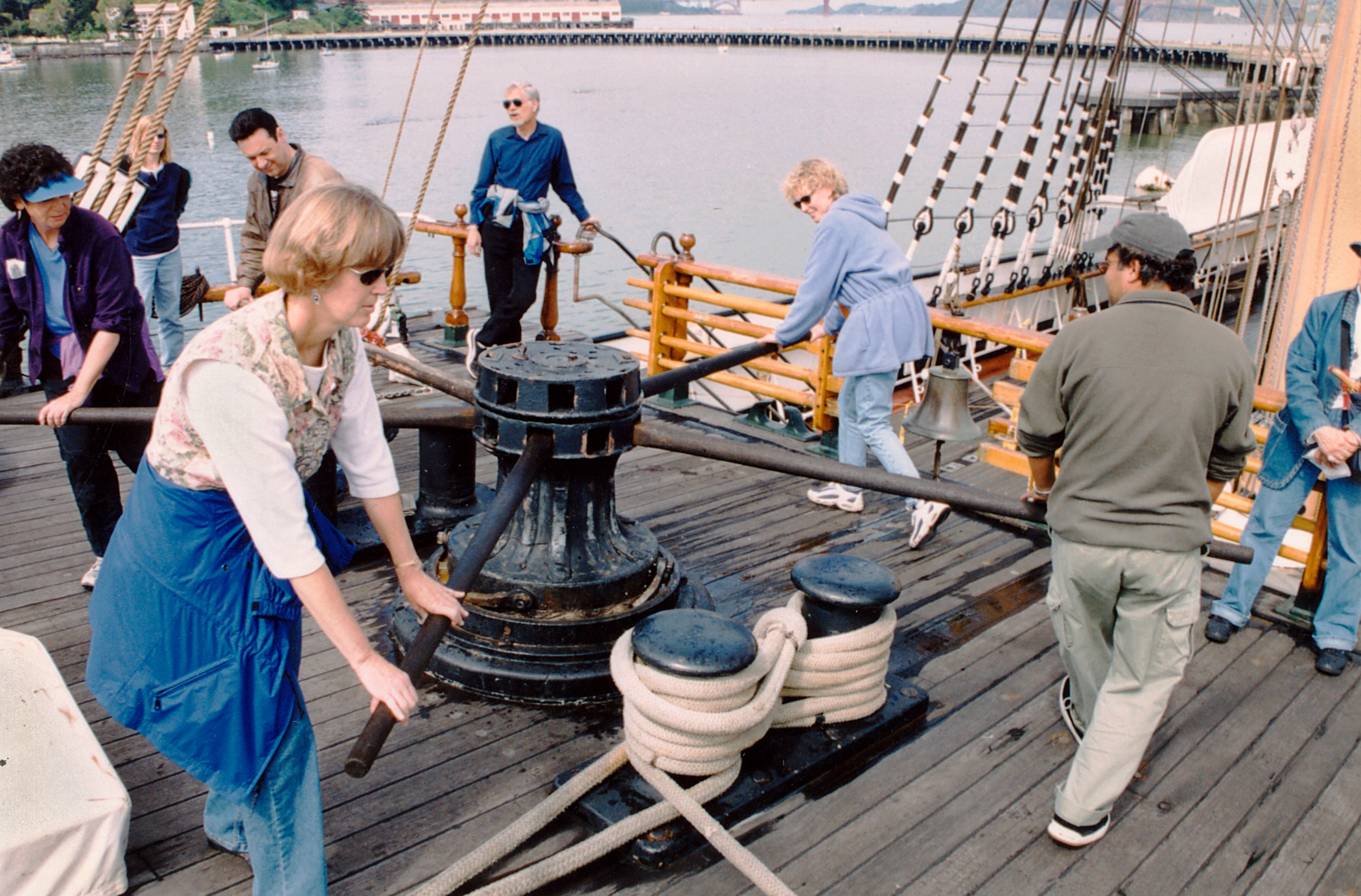 Visitors holding capstan bars walk in a circle and turn the capstan during a shipboard demonstration. This capstan is on the Balclutha near the bow and is a winch-like device that was used to raise and lower the anchor. The anchor line would wind around the capstan.